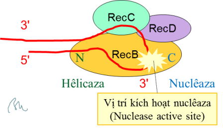 Role nuclease of RecBCD enzyme.